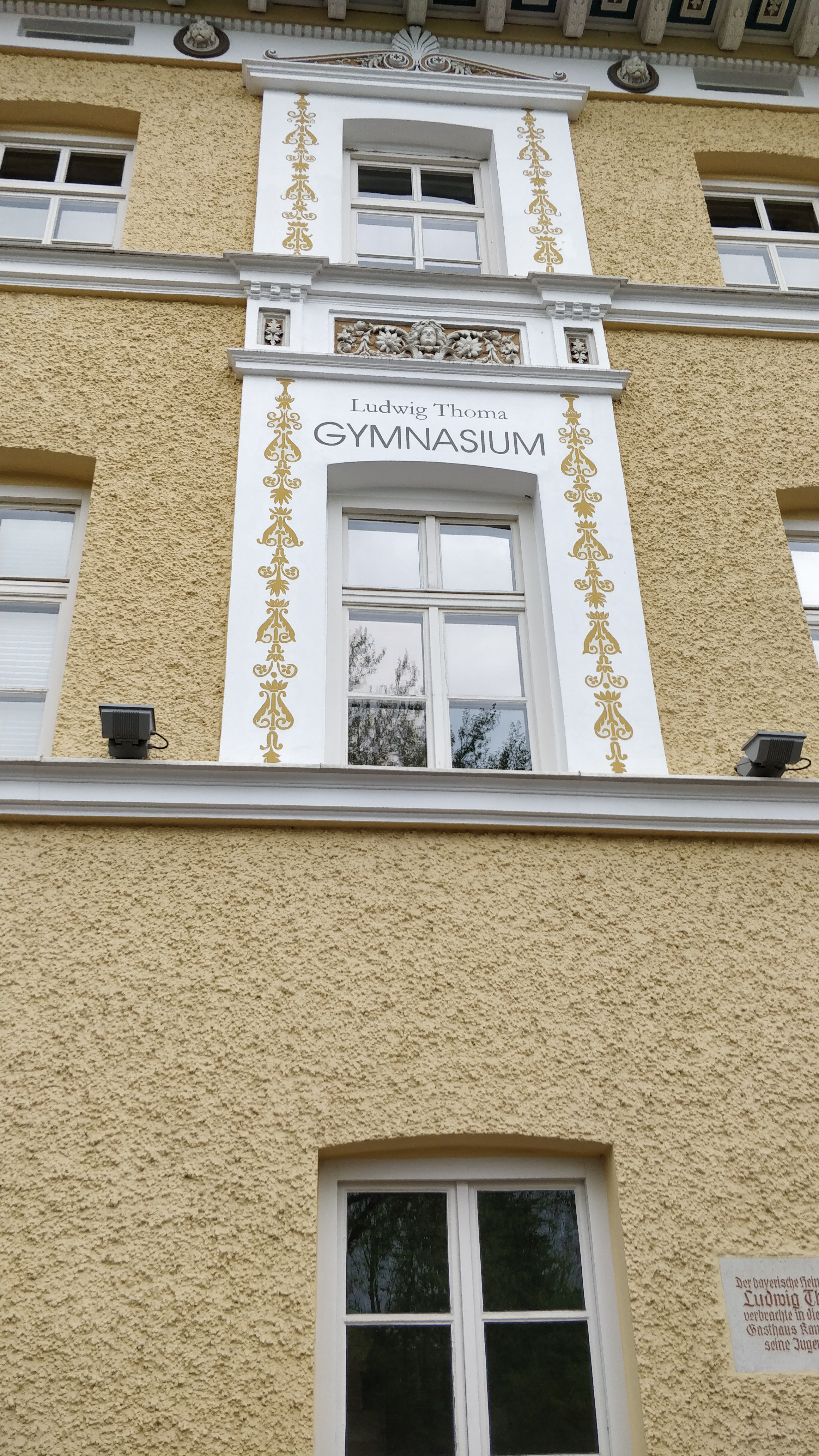 Building of the initial school house for the Ludwig Thoma College in Prien am Chiemsee, formerly Hotel Kampenwand.